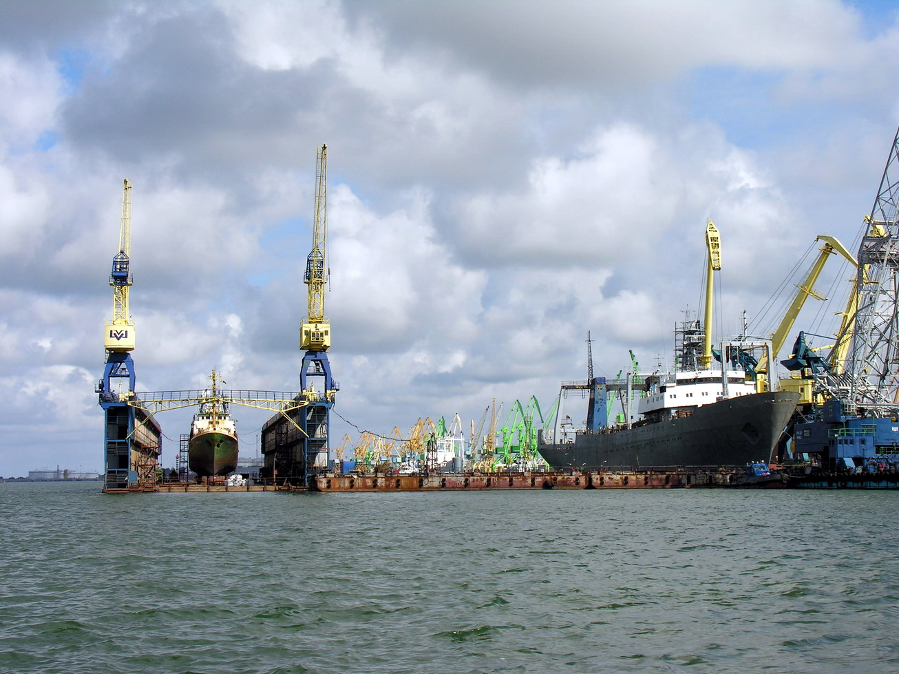 Port of Klaipėda, Lithuania